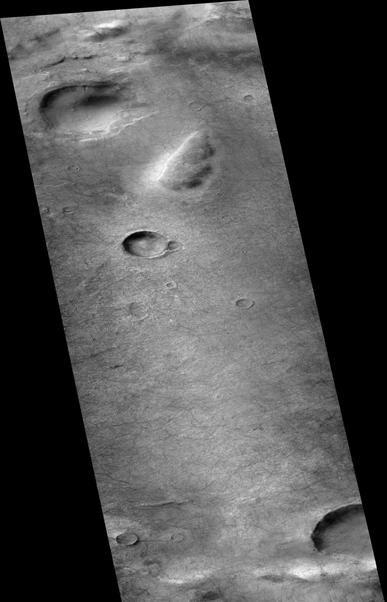 Coblentz Crater, as seen by CTX